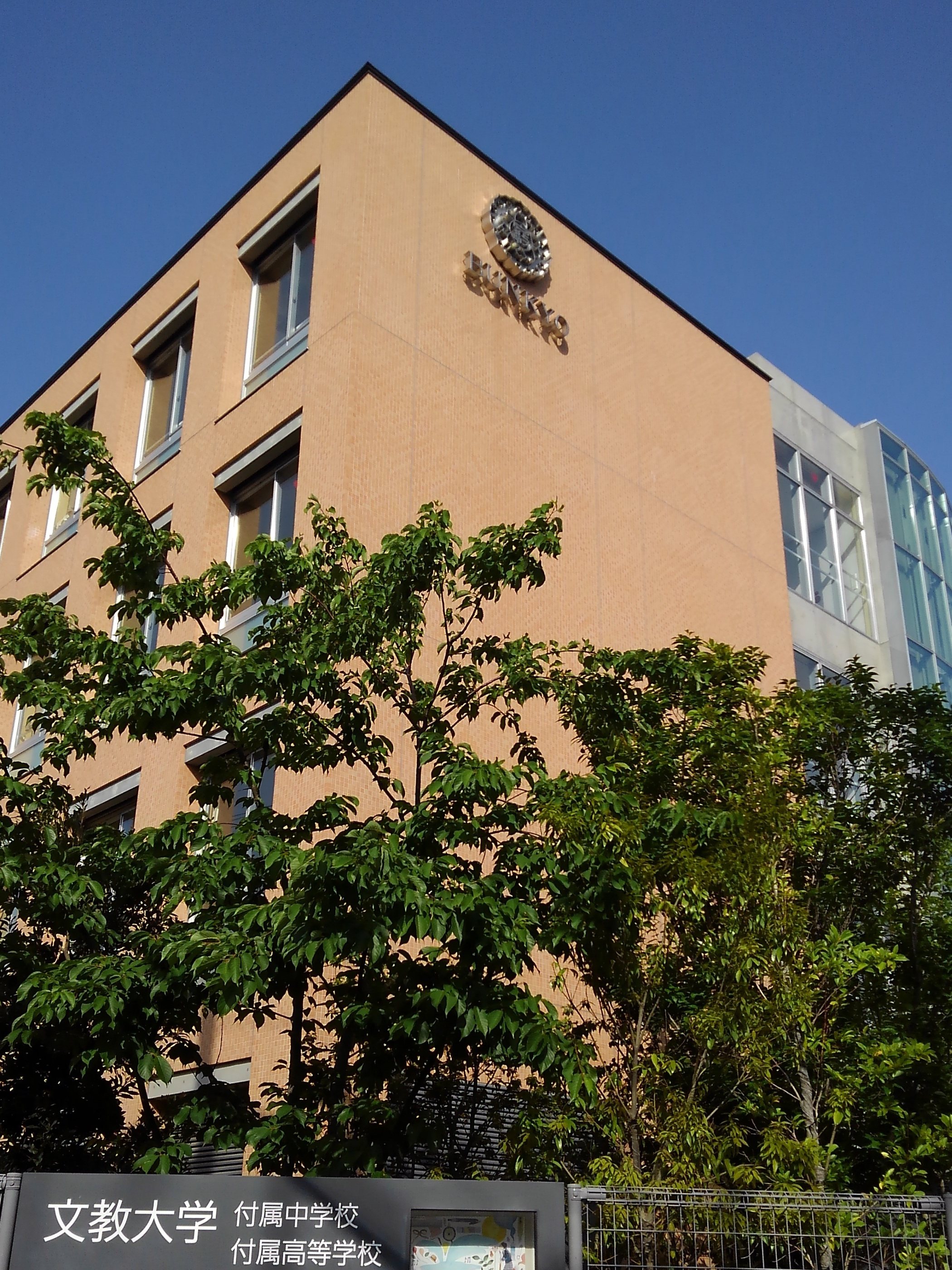 West Bldg. of Bunkyo University Junior & Senior High School in Shinagawa-ku, Tokyo, Japan. Cropped to avoid copyright violation.